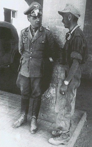 Rommel in Al Bayda city in Libya.